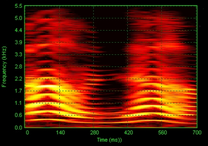 Acoustic spectrogram of a young girl saying "Oh No". In this spectrogram, the vertical axis represents frequency linearly extending from 0 to 5.5 kHz, and the horizontal axis represents time over an interval of 700 milliseconds. Generated with the Fatpigdog's PC based Real Time FFT Spectrum Analyzer.